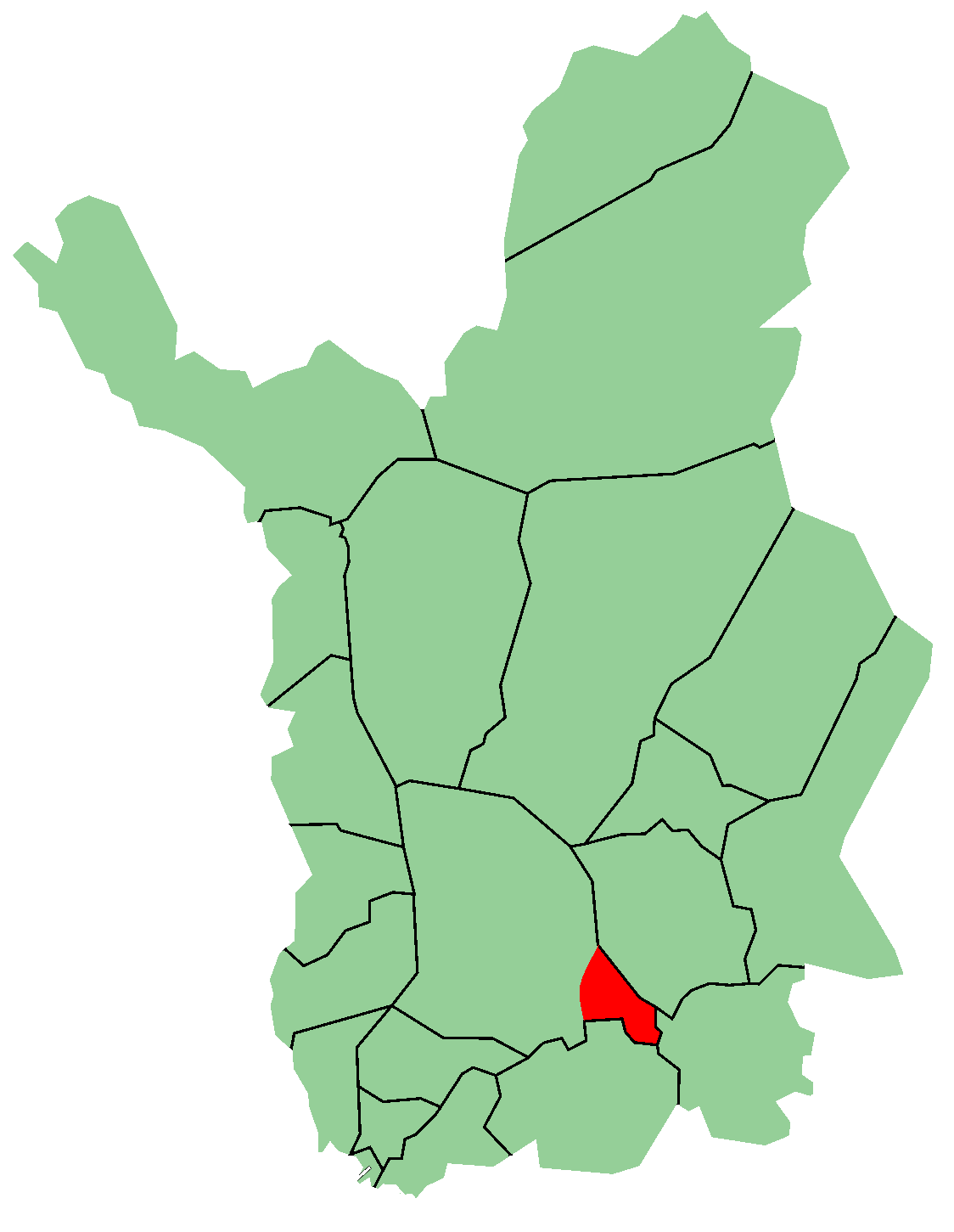 Location of Yläkemijoki in Lapland (Lappi) Source: self-made, based on Image:Lappi kunnat.png Author: Finnaries Date: 2007-02-23